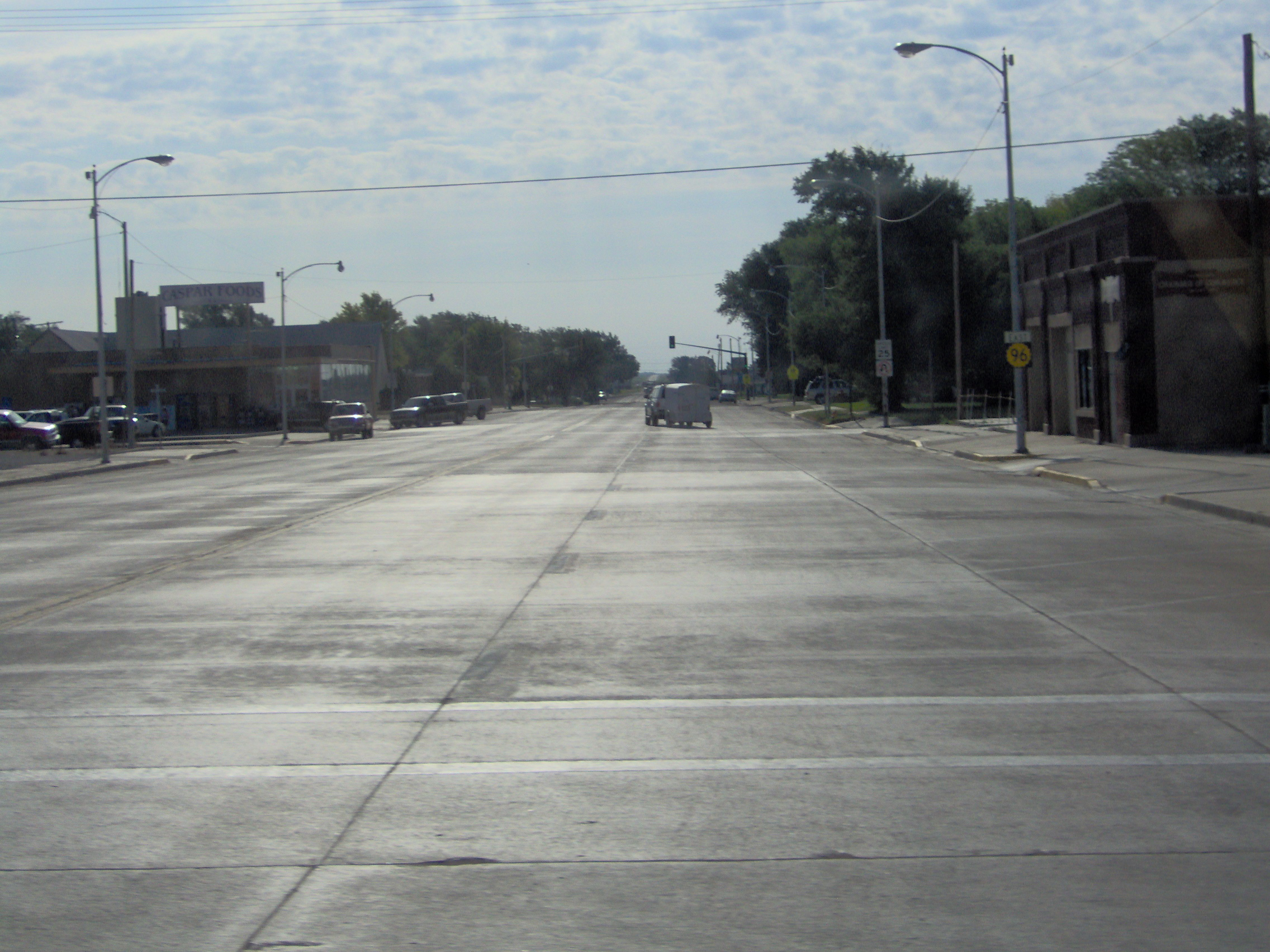 Main intersection (of US 83 and K-96) in Scott City in far western Kansas. Picture taken by Nyttend on 22 July 2006.